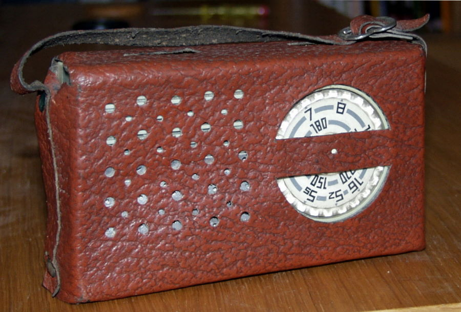 Radio "Sylwia", manufacturer: "ZRK" (Poland), 1966